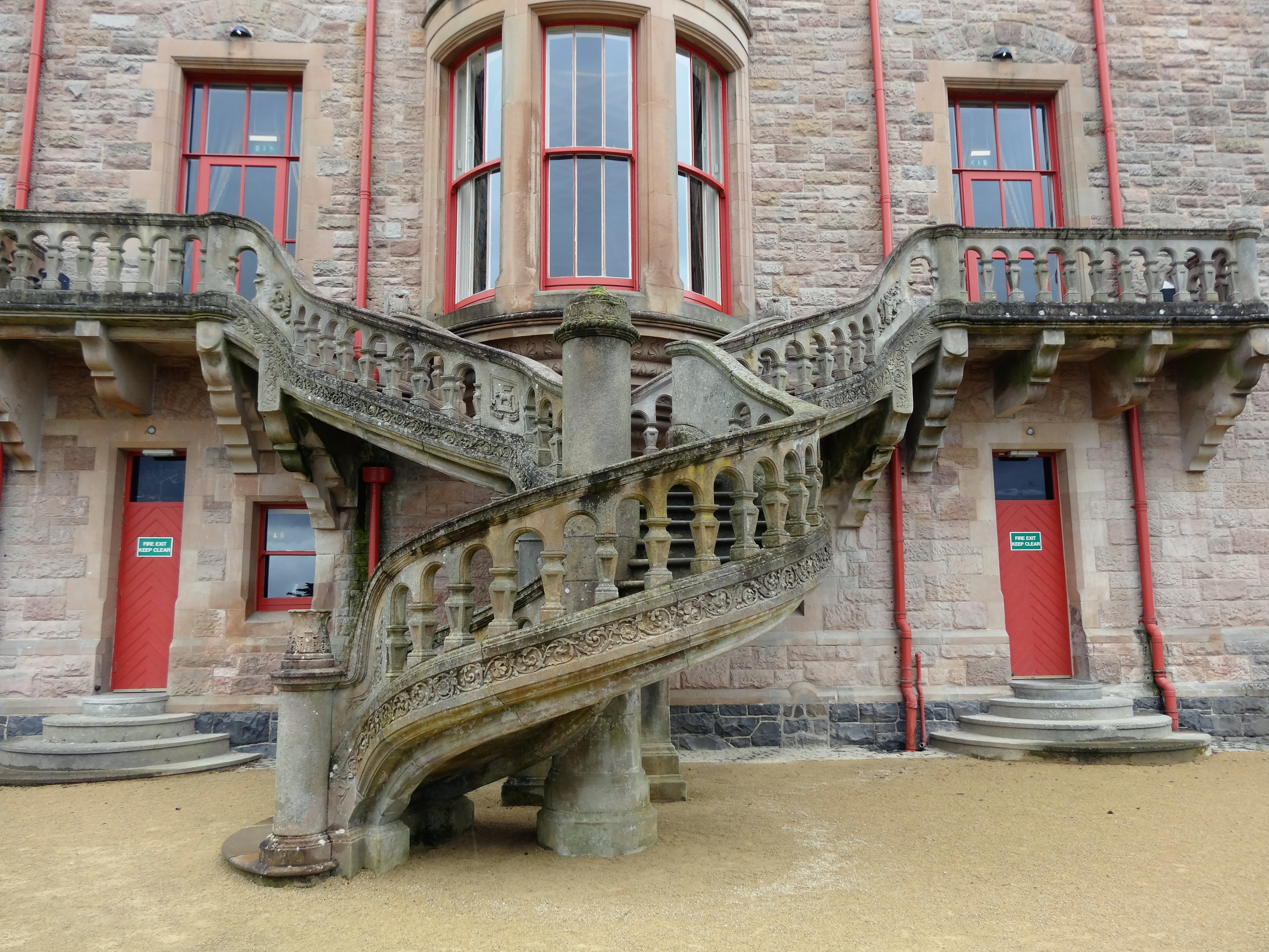 Stone staircase outside Belfast Castle, NI.